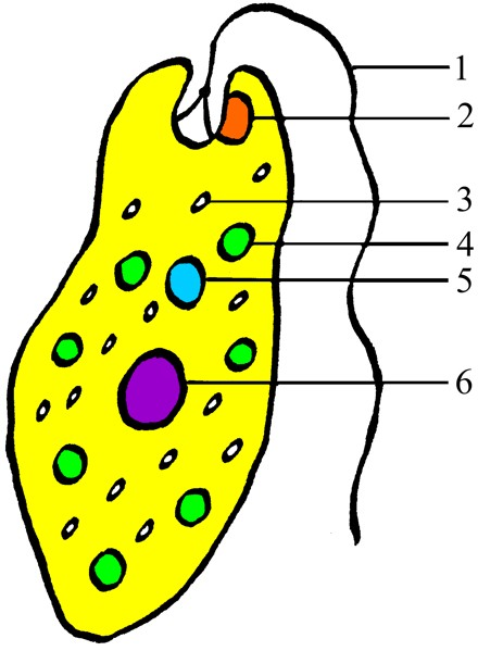 1. scourge, 2. eye-blotch, 3. starch-granules, 4. Chloroplaste, 5. Vakuole, 6. cell nucleus